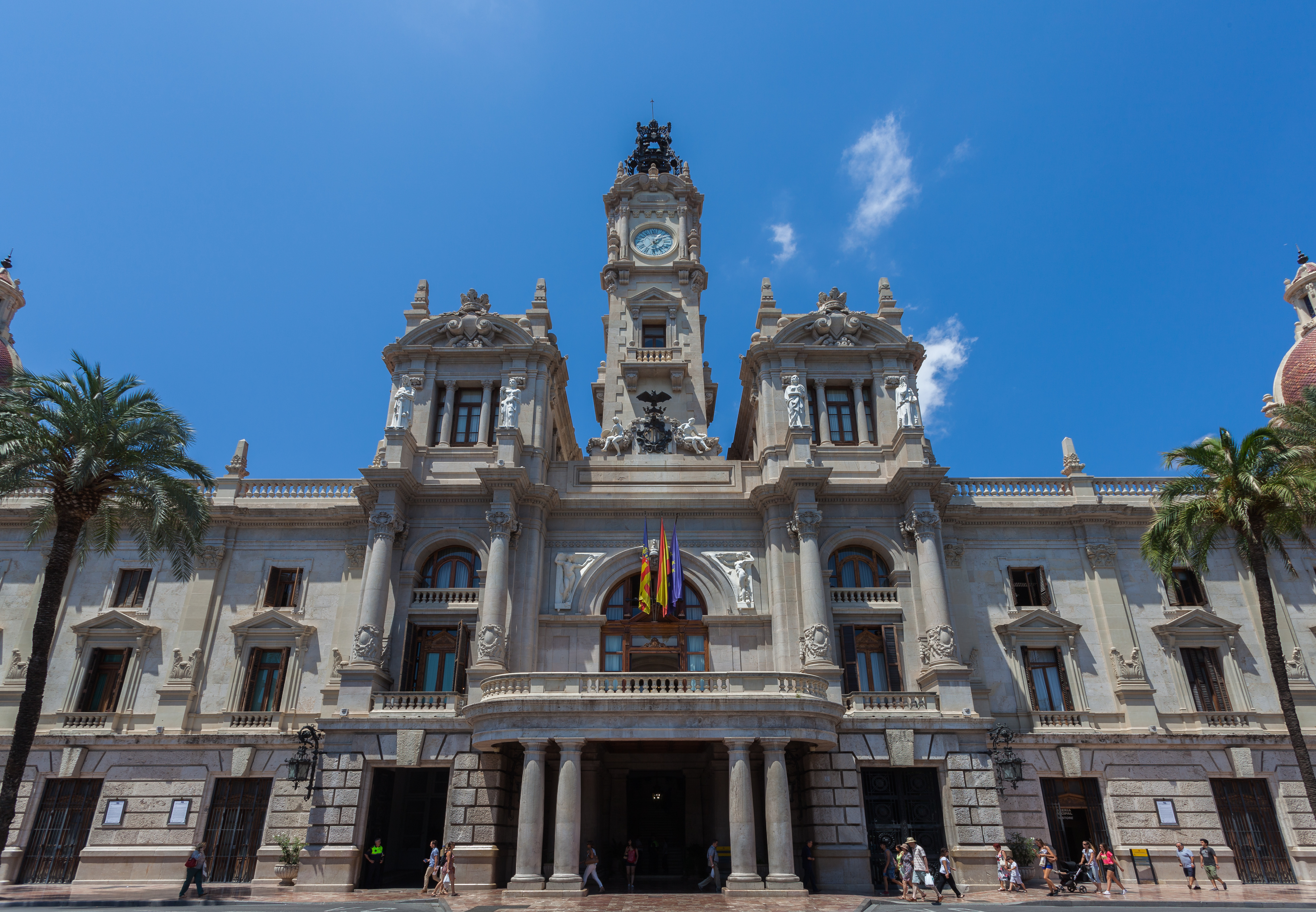 City hall, Valencia, Spain.